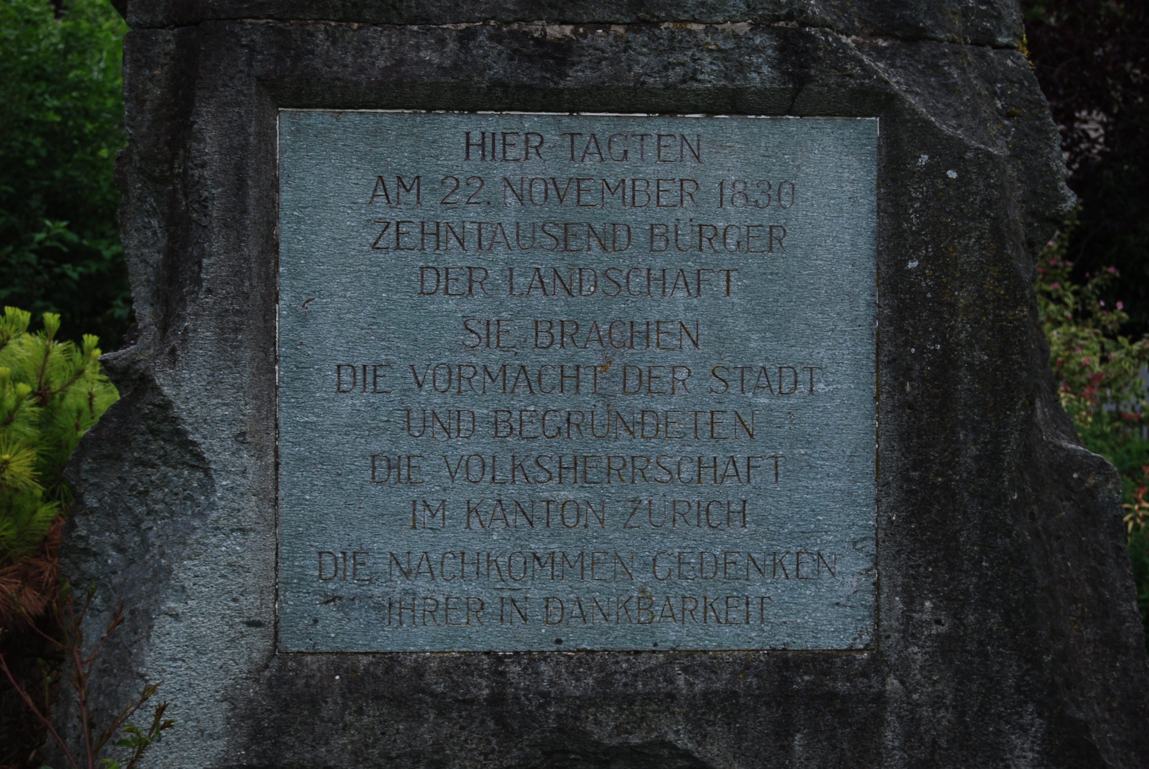 Day of Uster memorial, city of Uster, canton of Zürich, SwitzerlandEsperanto: Ustertago-memorejo, urbo Uster, Kantono Zuriko, Svislando